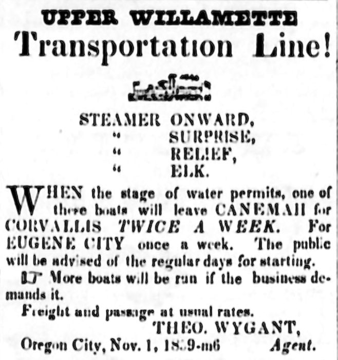 Upper Willamette Transportation Line (steamers Onward, Elk, Relief, and Surprise) advertisement.